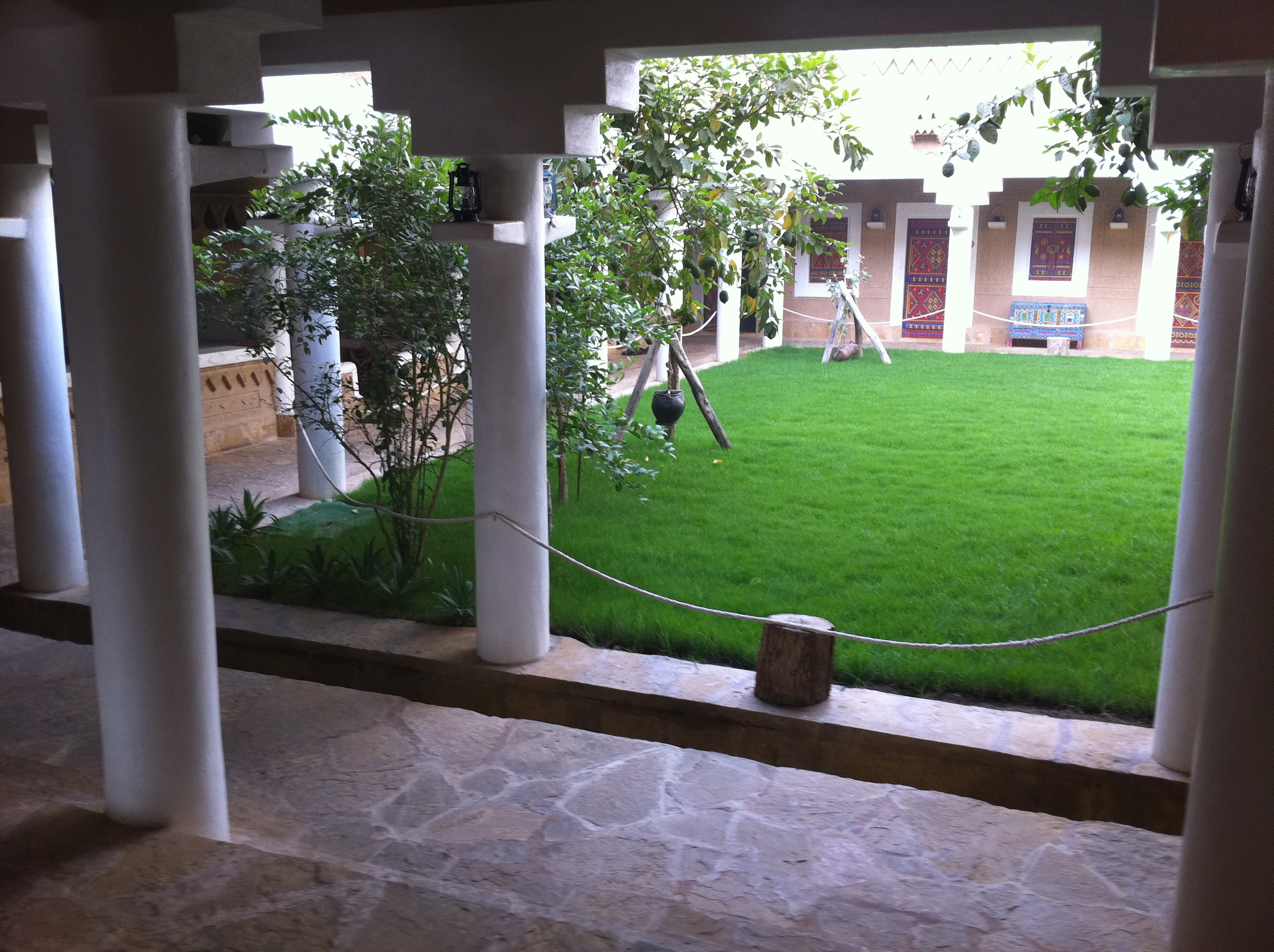 Restaurant in Riyadh